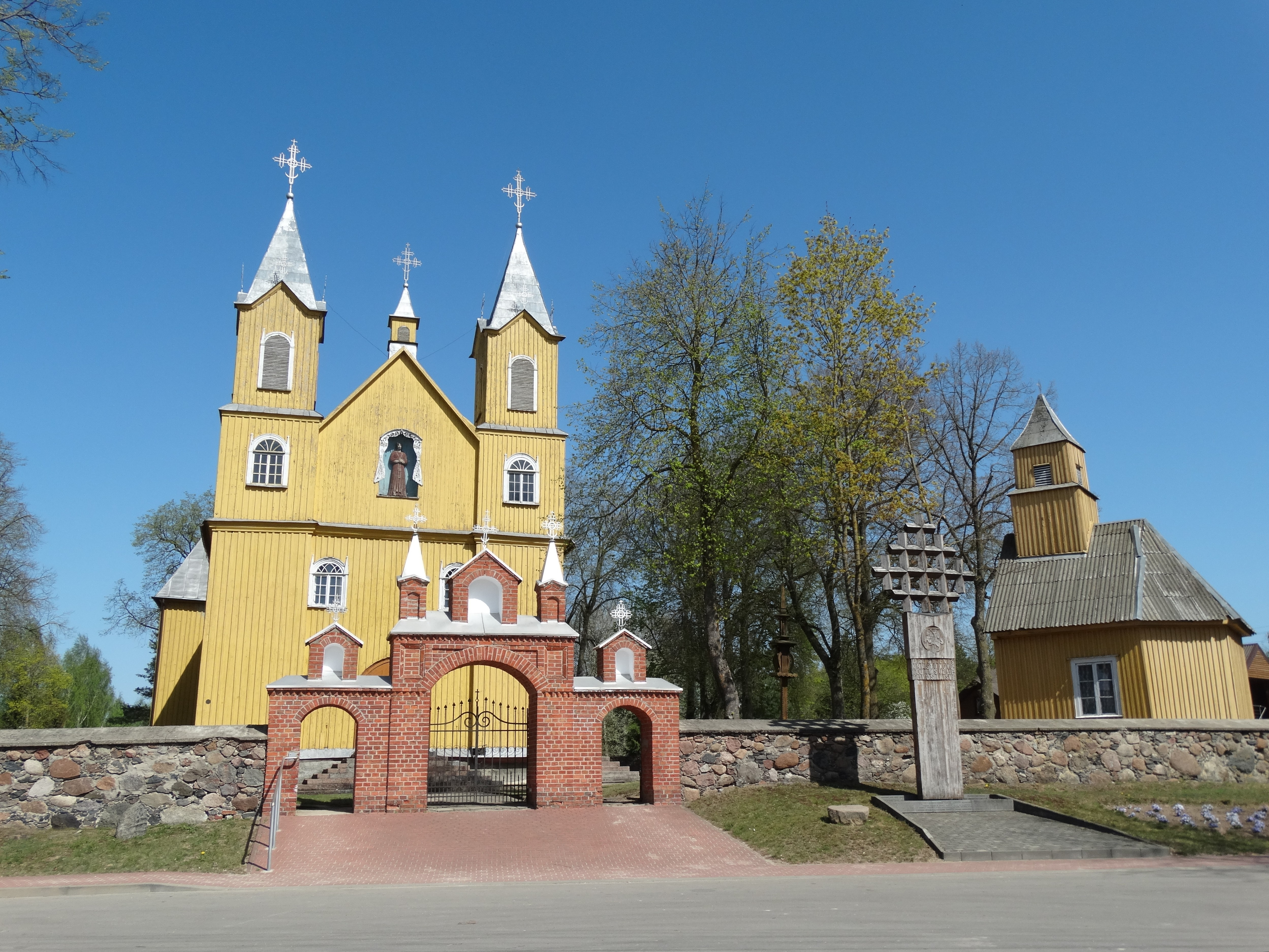 Catholic church, Rozalimas, Pakruojis District, Lithuania